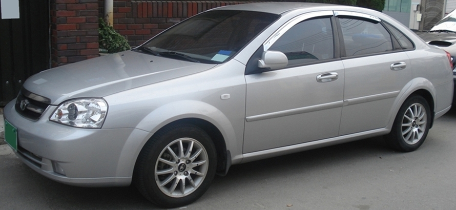 Daewoo New Lacetti